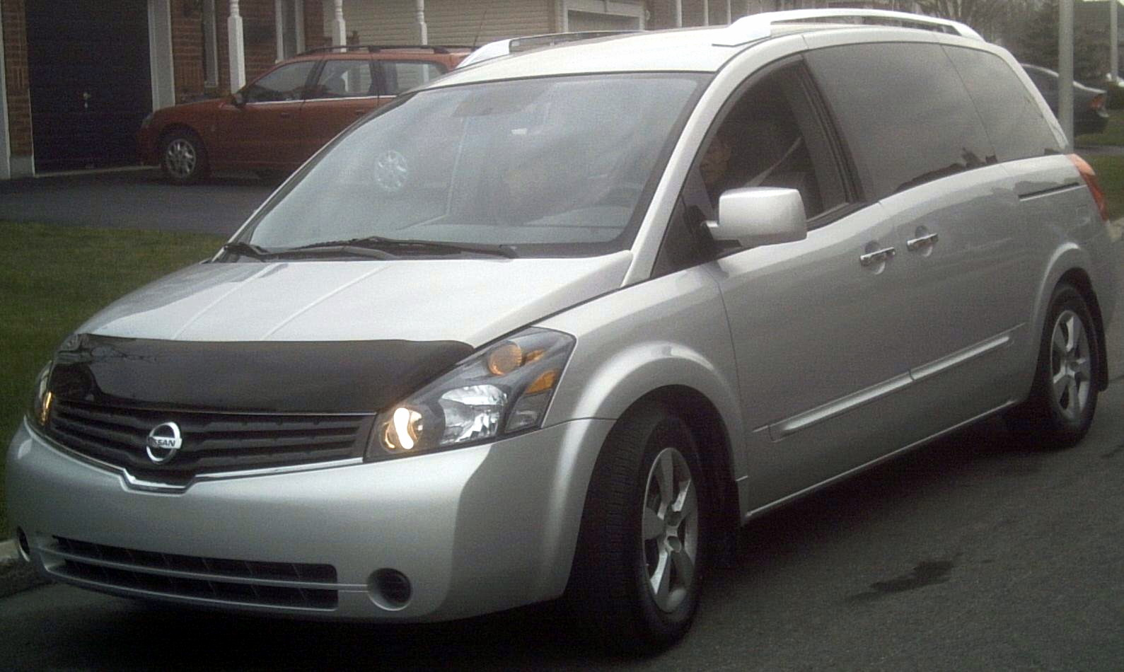 2007 Nissan Quest photographed in Montreal, Quebec, Canada.